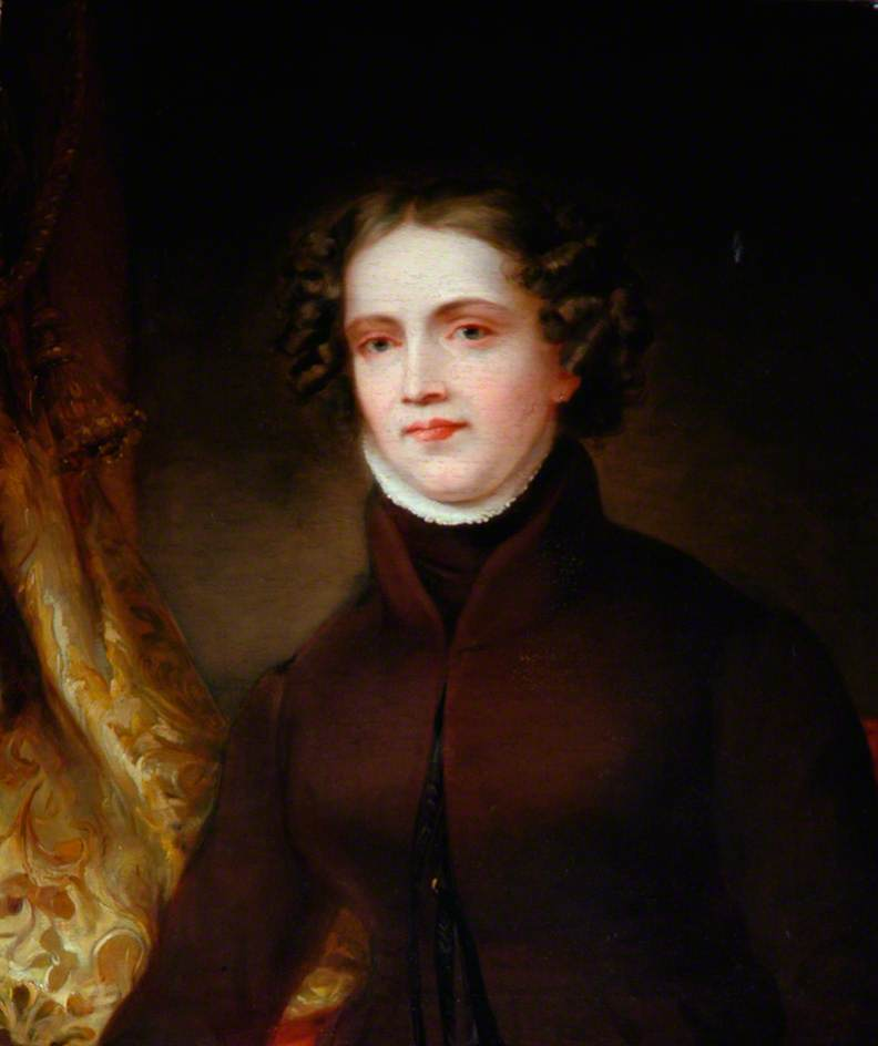 Portrait of Anne Lister (1791-1840), by Joshua Horner, ca. 1830